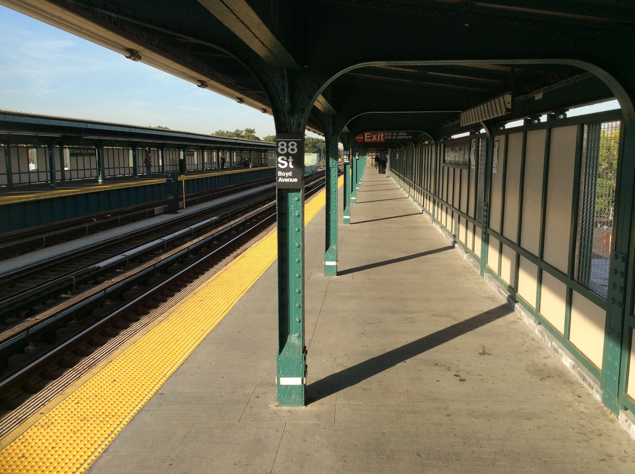 Brooklyn bound platform at 88 St